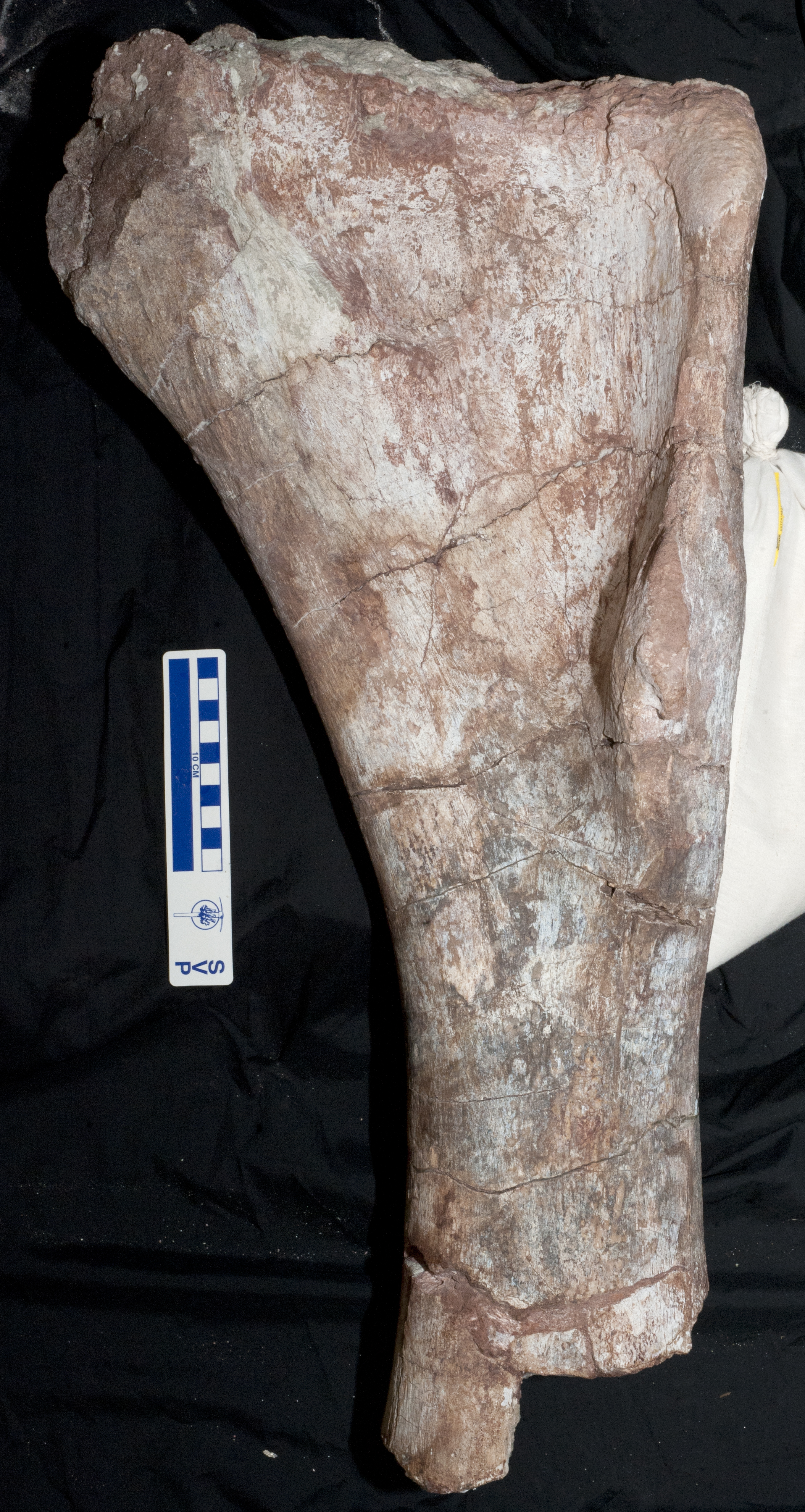 Rukwatitan RRBP 07409 proximal humerus anterior view